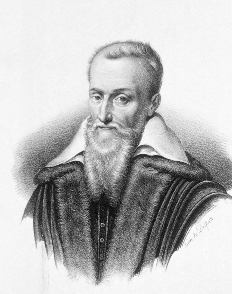 Joseph Justus Scaliger (August 5, 1540, Agen – January 21, 1609, Leiden)